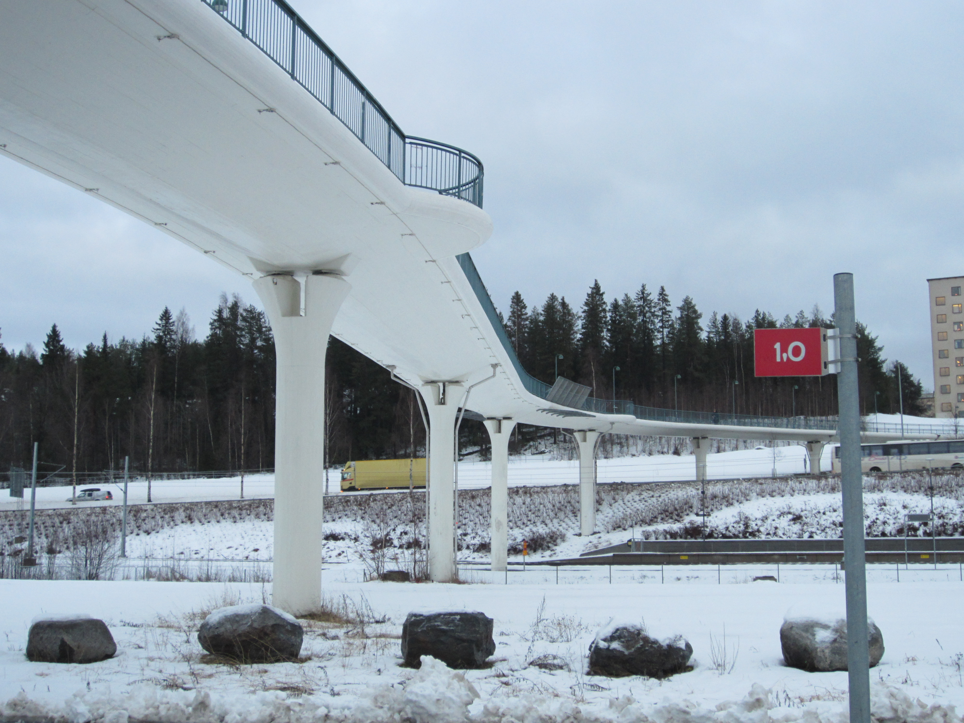 Bridge "Svingen" in Umeå, seen from under.